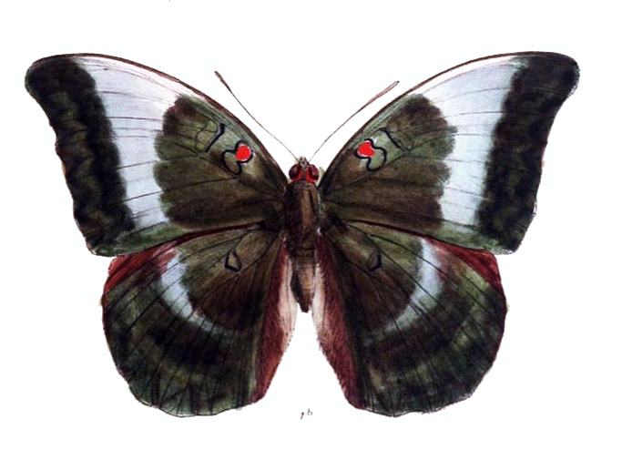 Dophla laudabilis